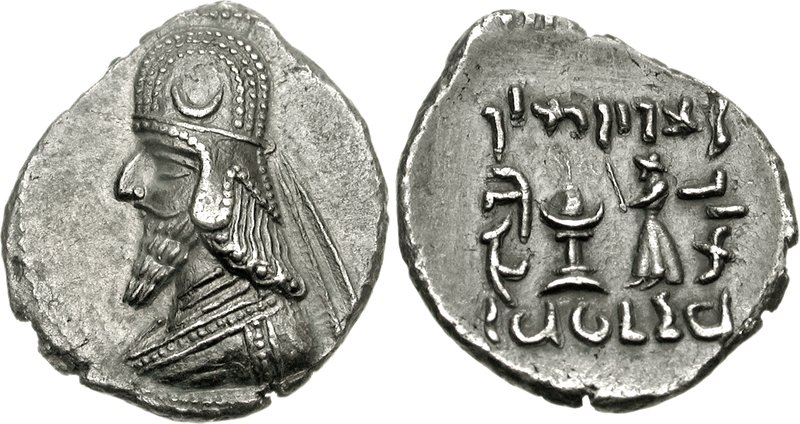 KINGS of PERSIS. Darios (Darev) II. Mid 1st century BC